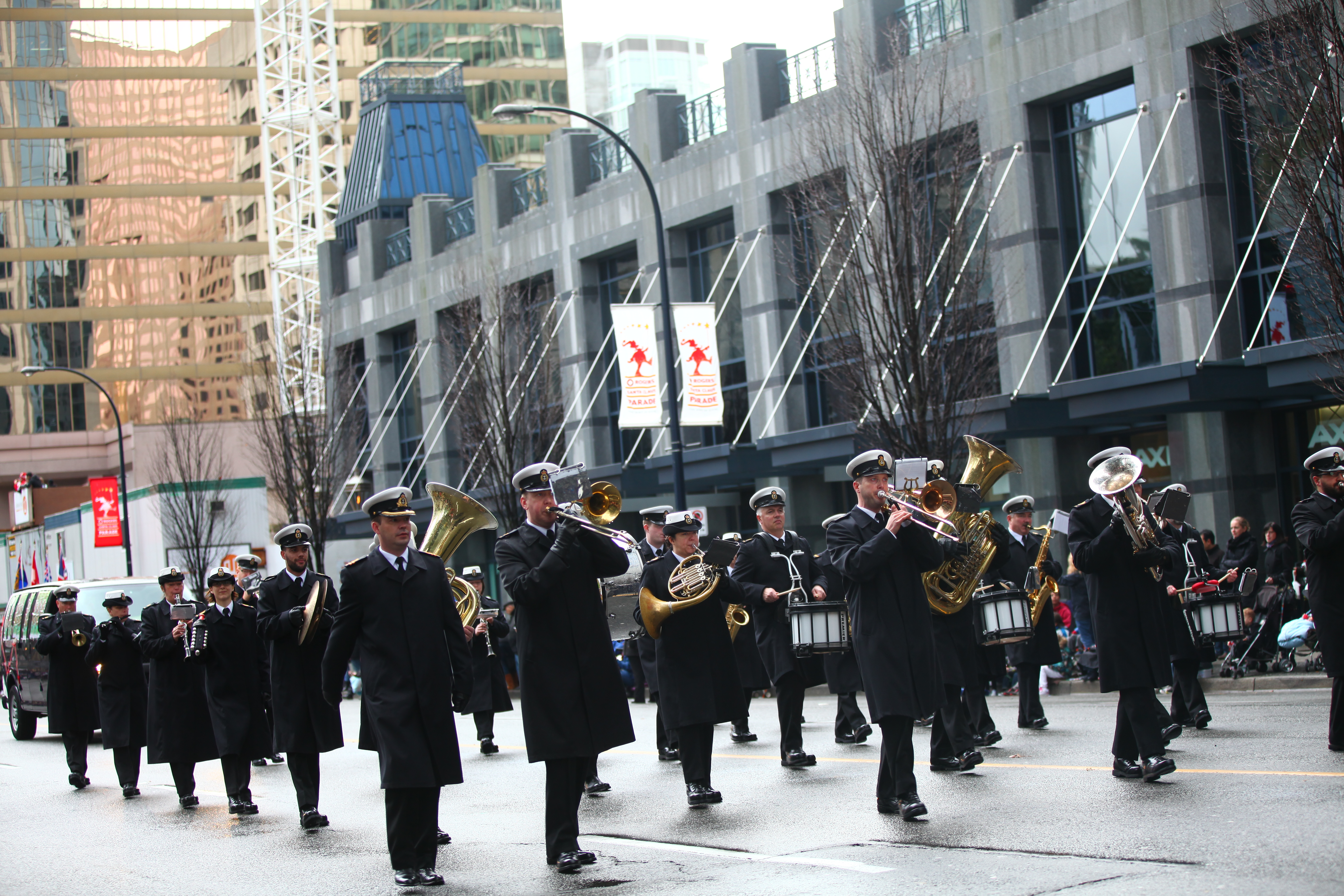 Rogers Santa Claus Parade